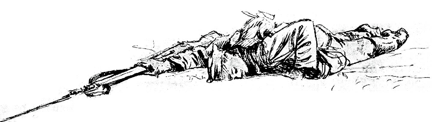 Nikolay Ivanovich Kravchenko